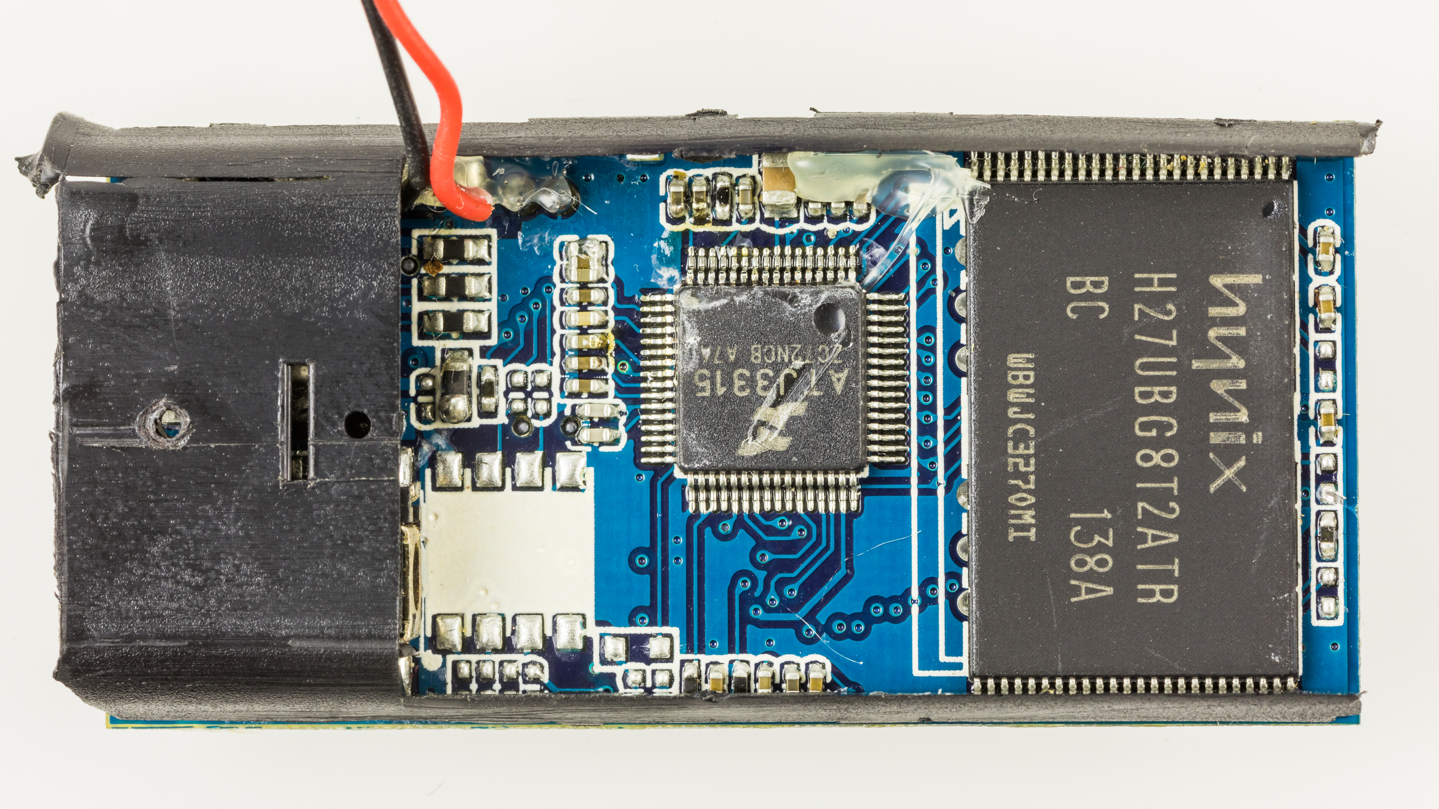 Medion MP3 player - case and battery removed